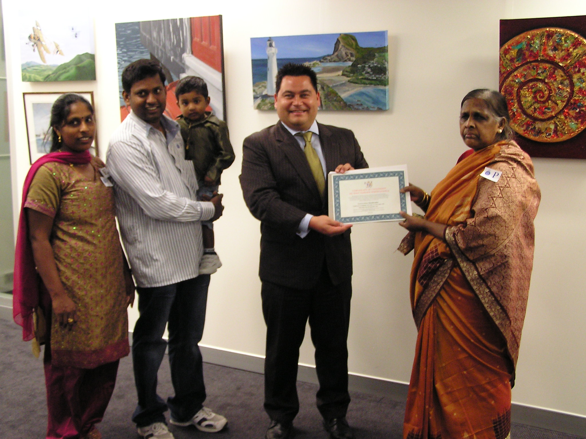 Citizenship Ceremony, Wellington, with Charles Chauvel holding the certificate.